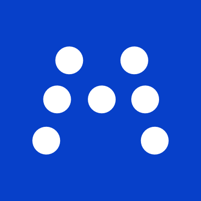 Logo of Perugia Minimetrò (2008).